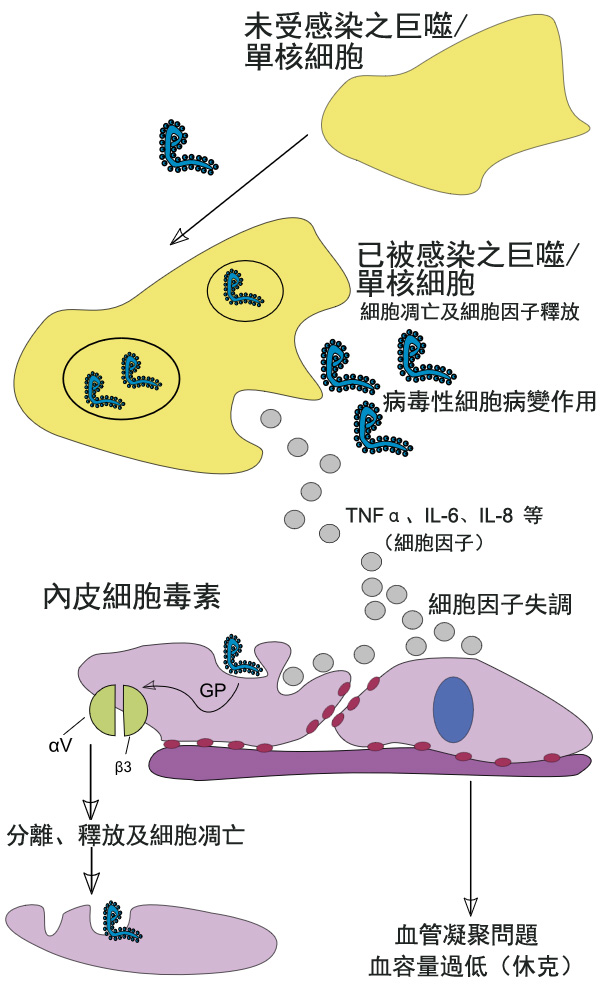 The pathogenesis schematic of Ebola (a Chinese version). 中文（香港）: 伊波拉出血熱致病機理概述。